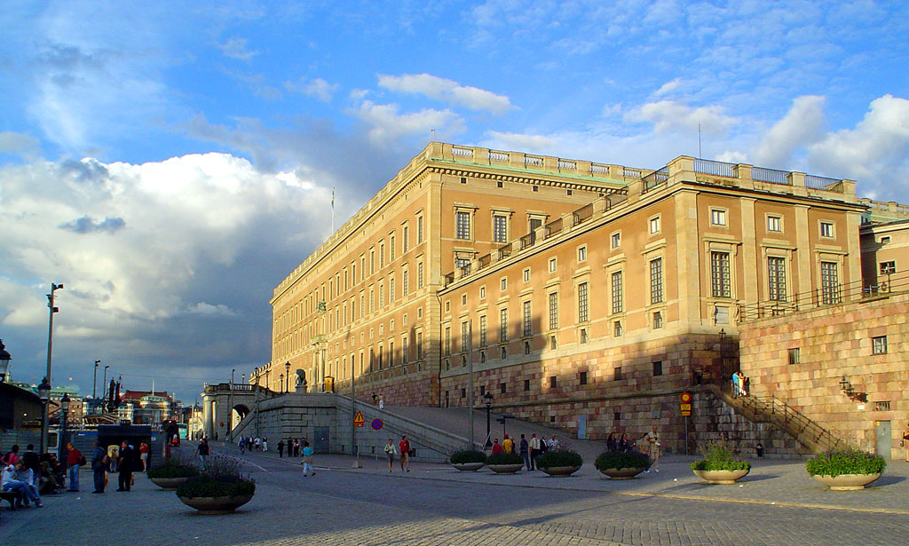 Stockholm Palace